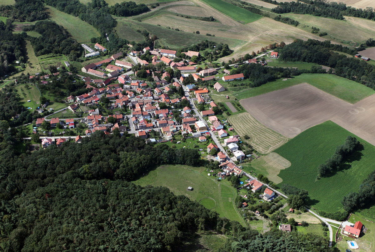 village Blevice, Czech Republic